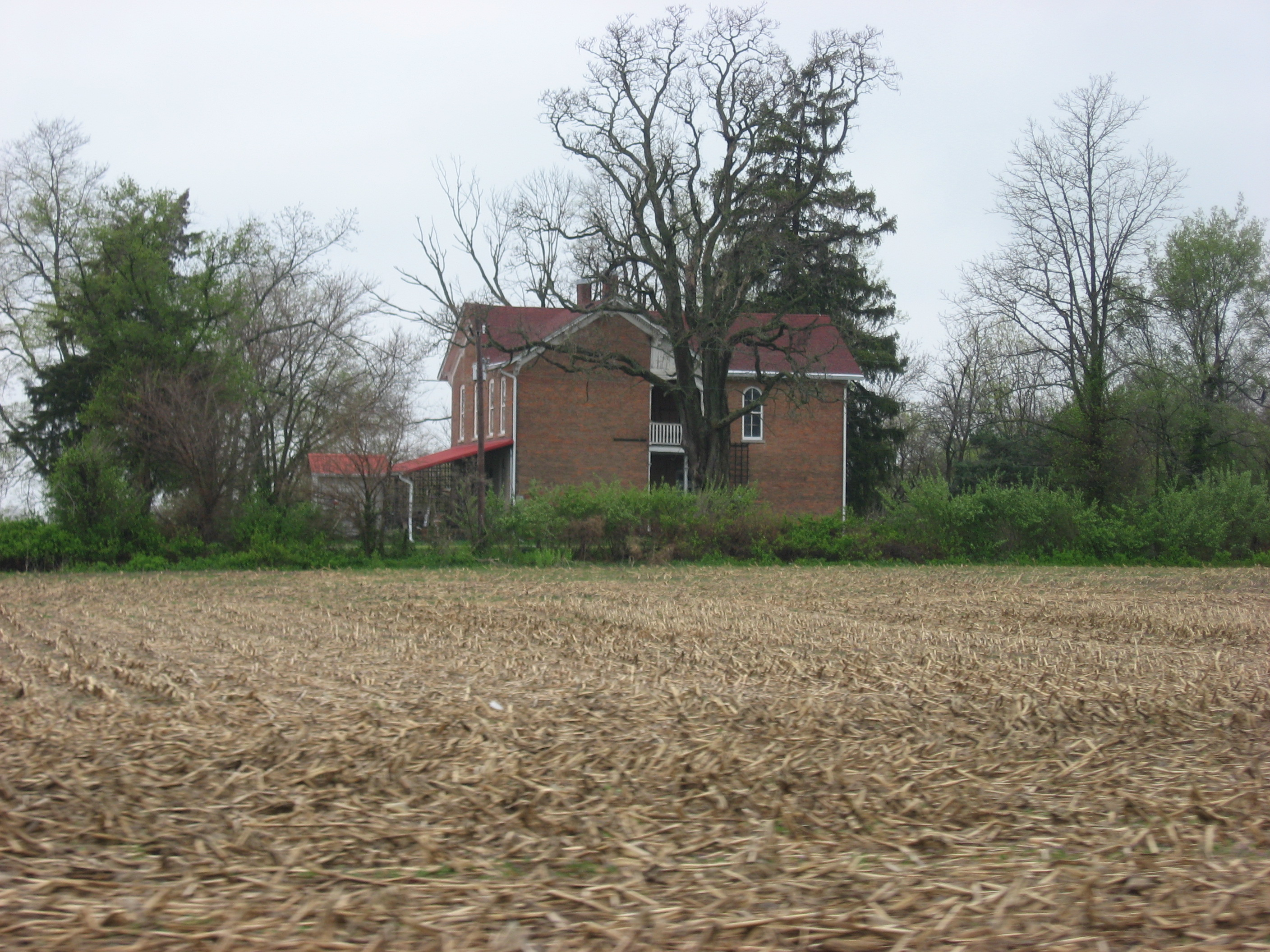 Roadside view of the Rufus and Amanda Black House, located at 222 S200W at Philadelphia in Sugar Creek Township, Hancock County, Indiana, United States. Built in 1870, it is listed on the National Register of Historic Places.